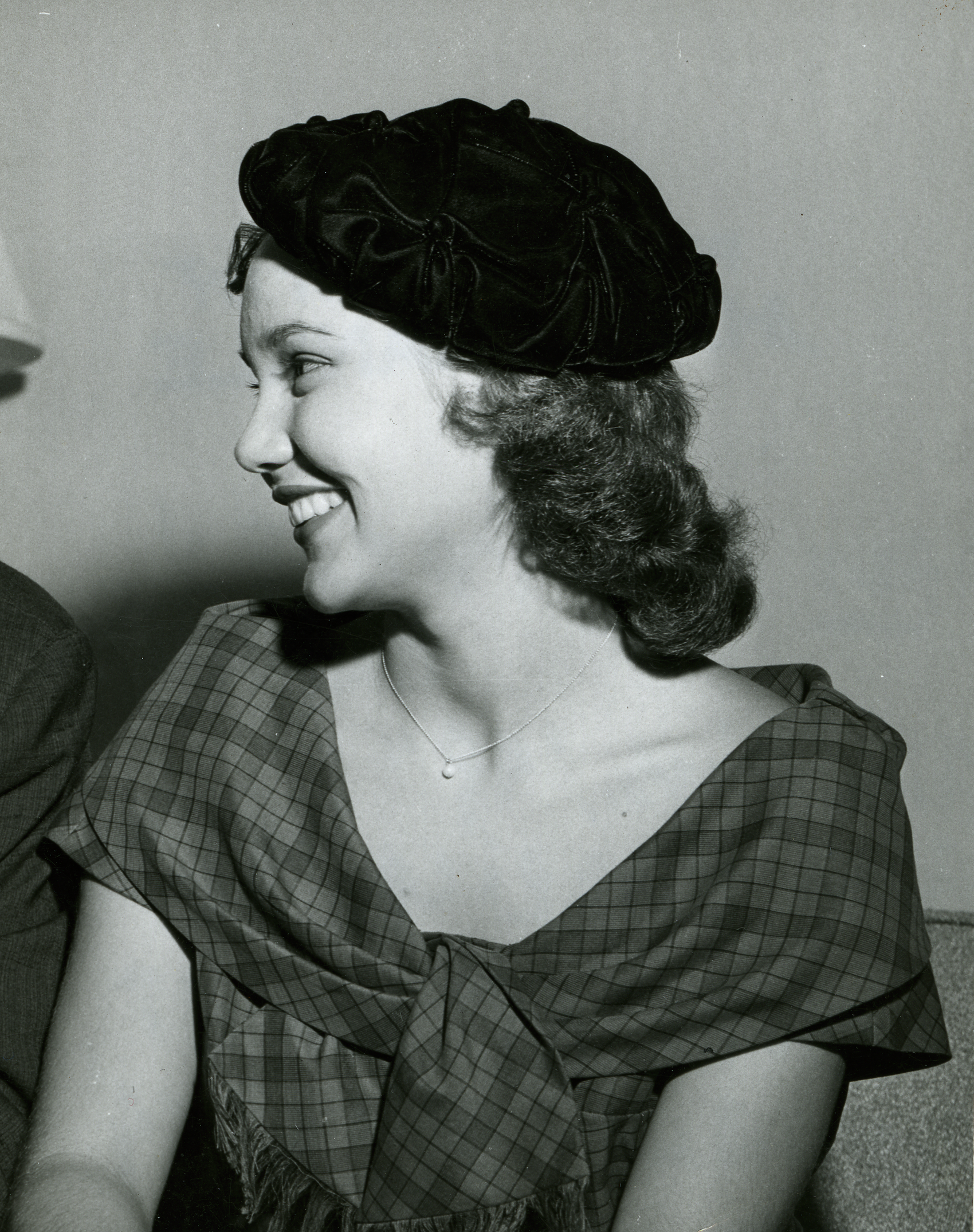 Collection: Shankle, Hugh W., Collection Call Number: PI/COL/1981.0066 System ID: 105590. Link to the catalog From Mary Ann Mobley, Brandon. (Miss Miss. '58,) (Miss America, '58-'59,) (Photo at WLBT,). Please see our profile page for information on ordering. Scanned as tiff in 2011/06/21 by MDAH. Credit: Courtesy of the Mississippi Department of Archives and History